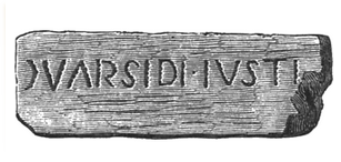 Roman building inscription of a unknown fifth cohort, found before 1787 at Ebchester/Vindomora.